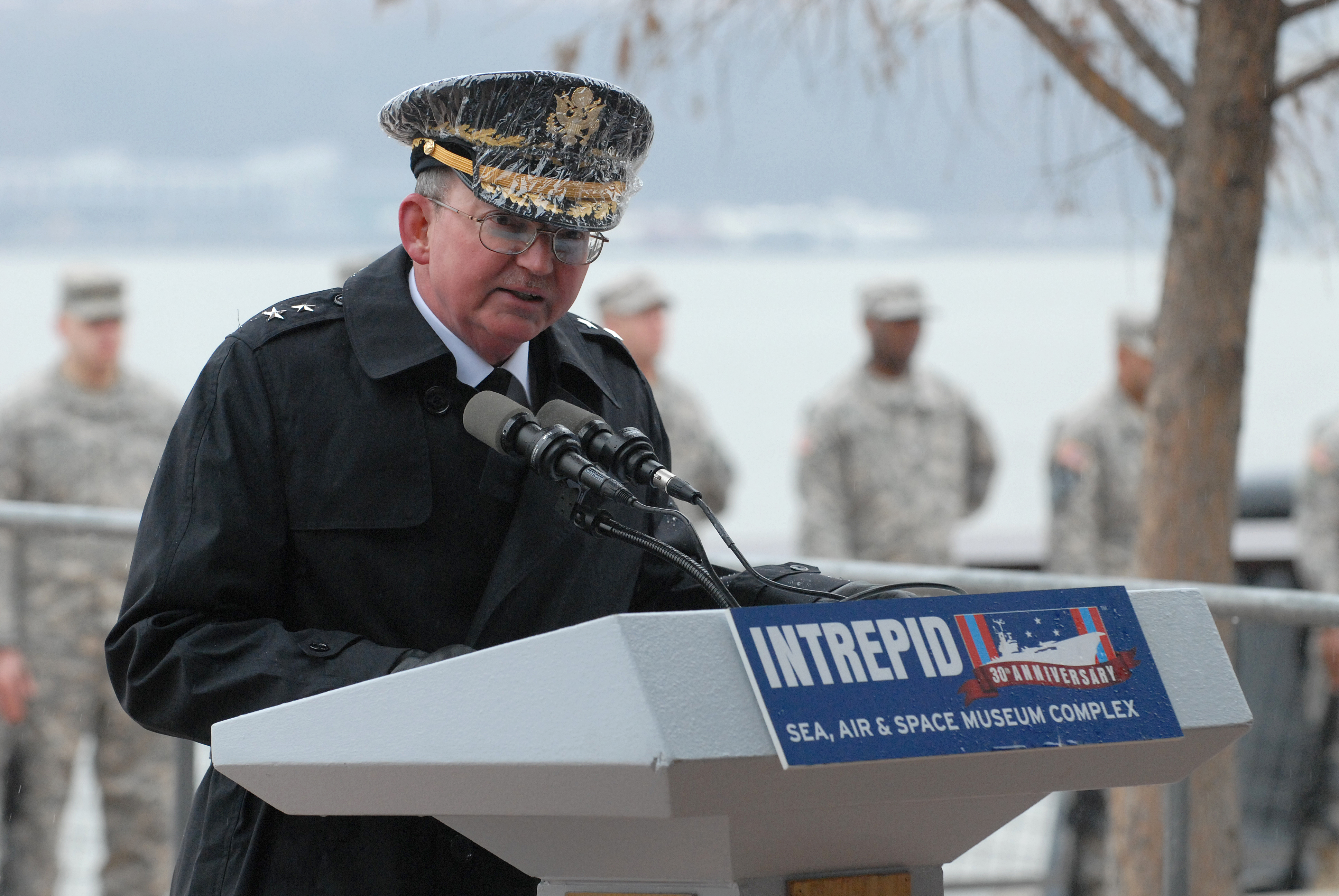 Army Maj. Gen. William D. Razz Waff, commanding general of 99th Regional Support Command, U.S. Army Reserve, addresses guests, during the Pearl Harbor Day ceremony on the Intrepid Sea, Air and Space MuseumÃ¢â‚¬â„¢s Pier 86 in Manhattan, N.Y., Dec. 7, 2012. The ceremony commemorated the 71st anniversary of the Dec. 7, 1941, attacks on Pearl Harbor in Hawaii and featured remarks from Waff and veteran, Dan Fruchter, a survivor of the attacks.